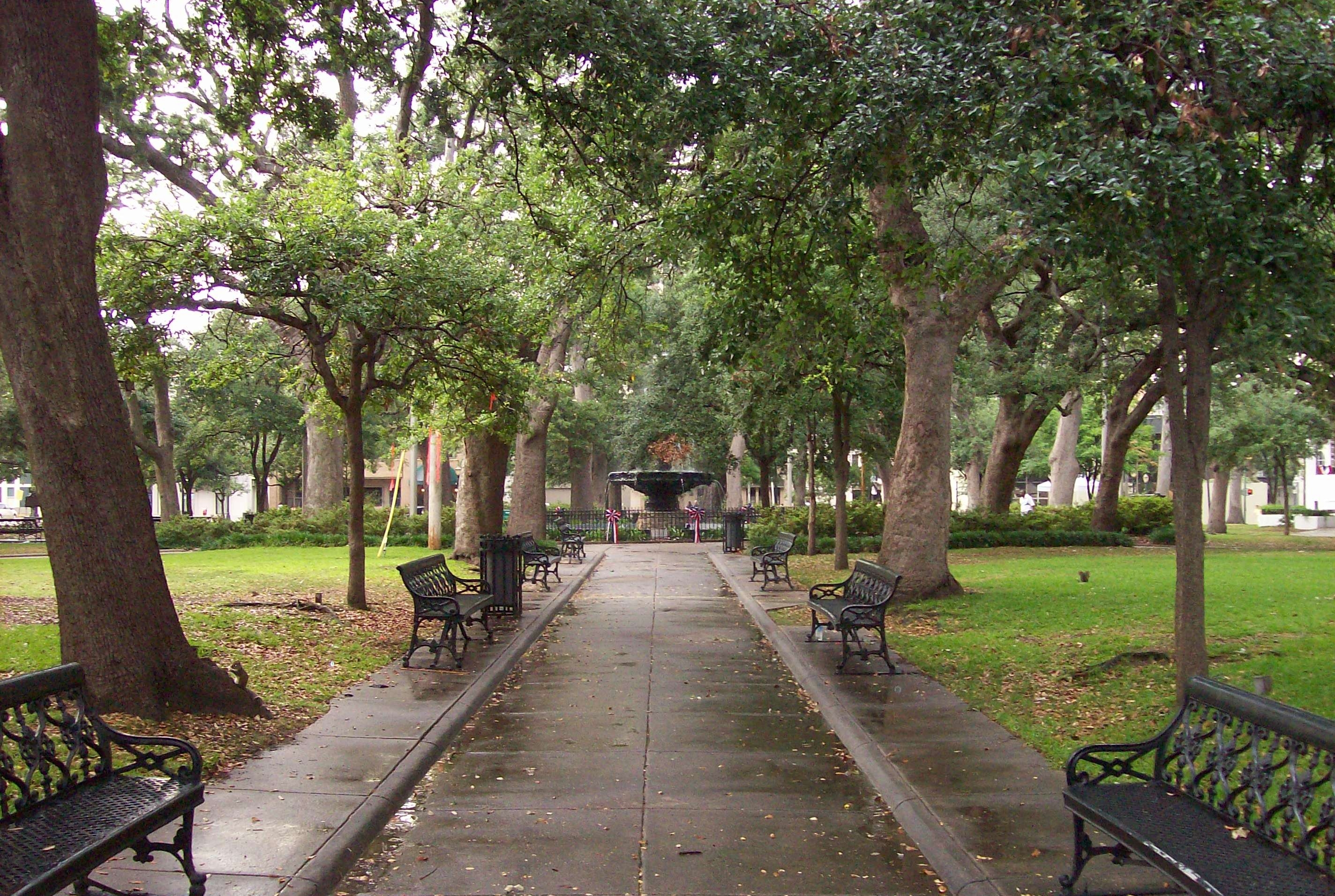 Ketchum Fountain in Bienville Square in Mobile, Alabama. Taken from Dauphin Street.